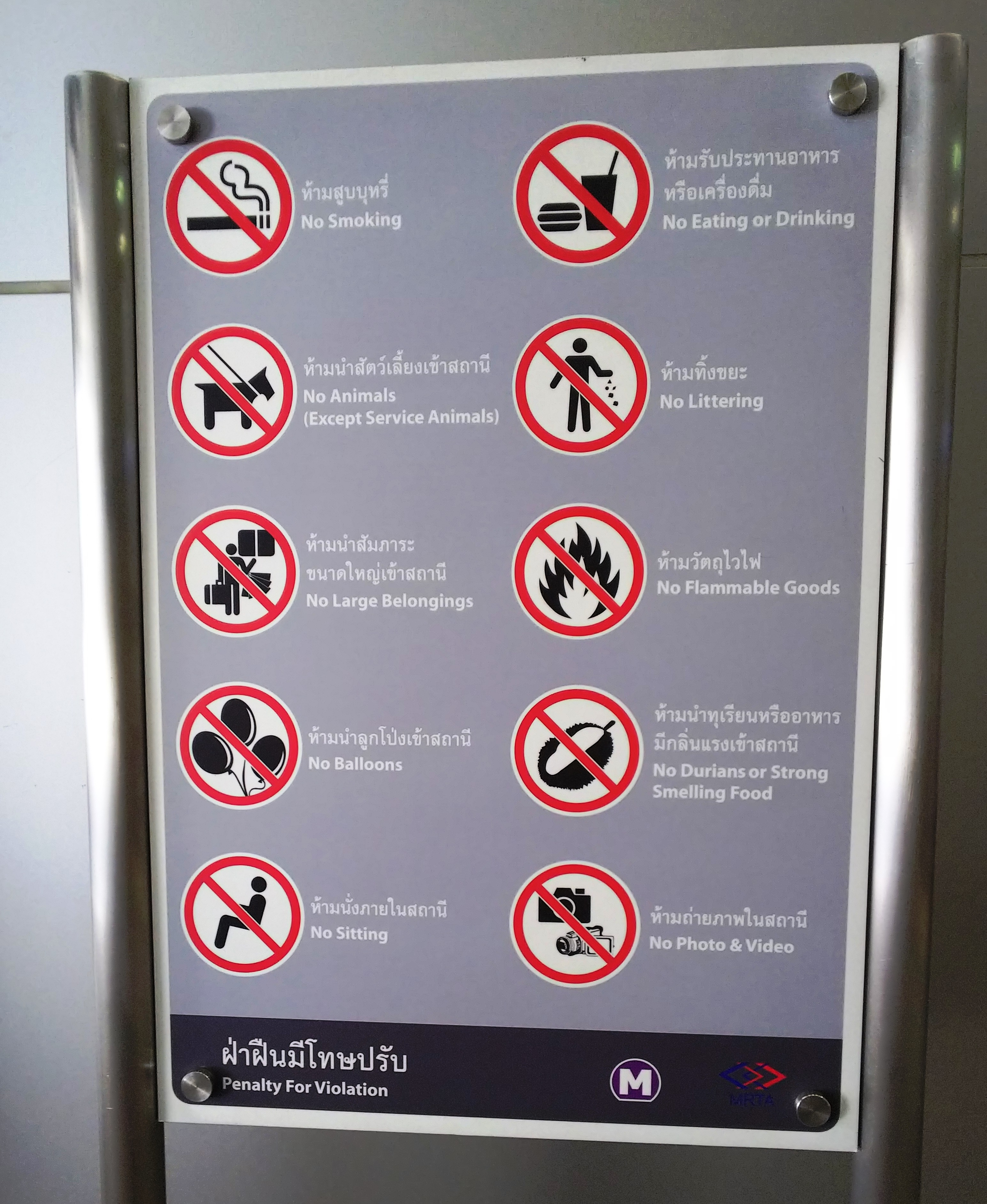 Don't take photos and video in the Bangkok MRT station. バンコク地下鉄の駅構内で写真撮影やビデオ撮影をしていると、職員に注意されます。 BTSは禁止されていないので特に何も言われないのですがね。